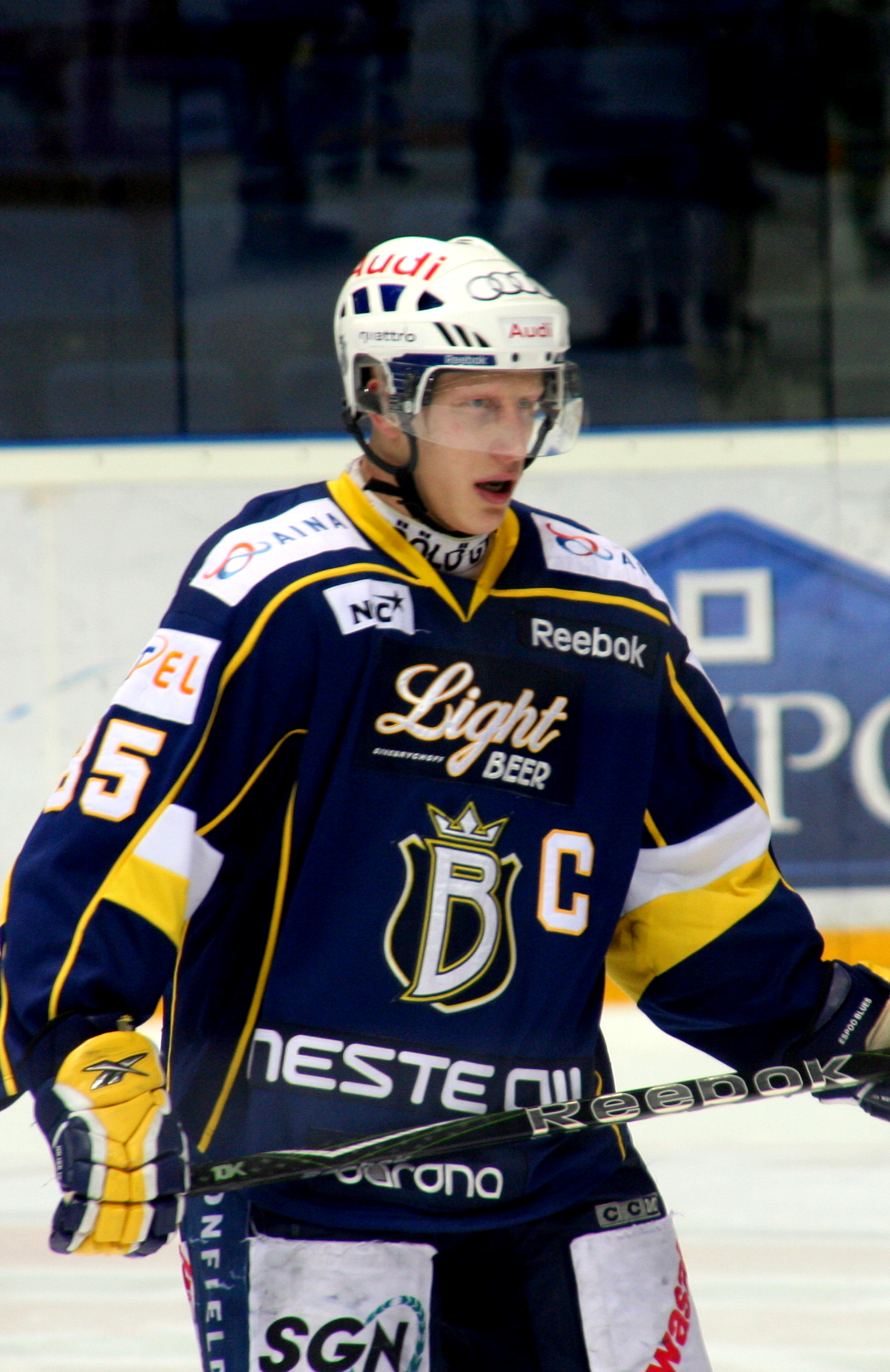 Ice Hockey team Espoo Blues' Attacker/Captain #85 Toni Kähkönen.